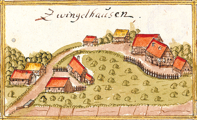 View of Zwingelhausen, Kirchberg an der Murr, from the forest register books created by Andreas Kieser